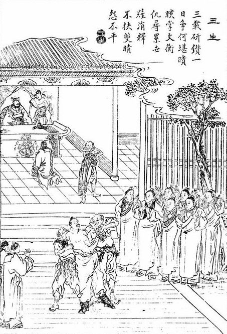 19th-century illustration of a scene from the short story "Three Incarnations“ collected in Strange Tales from a Chinese Studio (1740).